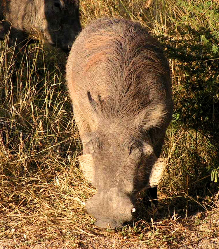 Warthog (Phacochoerus africanus sundevallii) taken in Kruger Park, South Africa